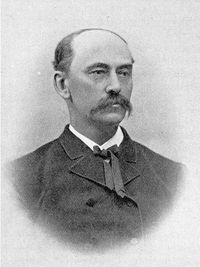 Oscar Alin, Swedish political scientist and politician.